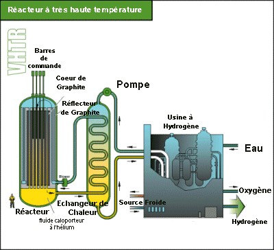 captions translation of the existing VHTR image, originaly taken from a governmental site.